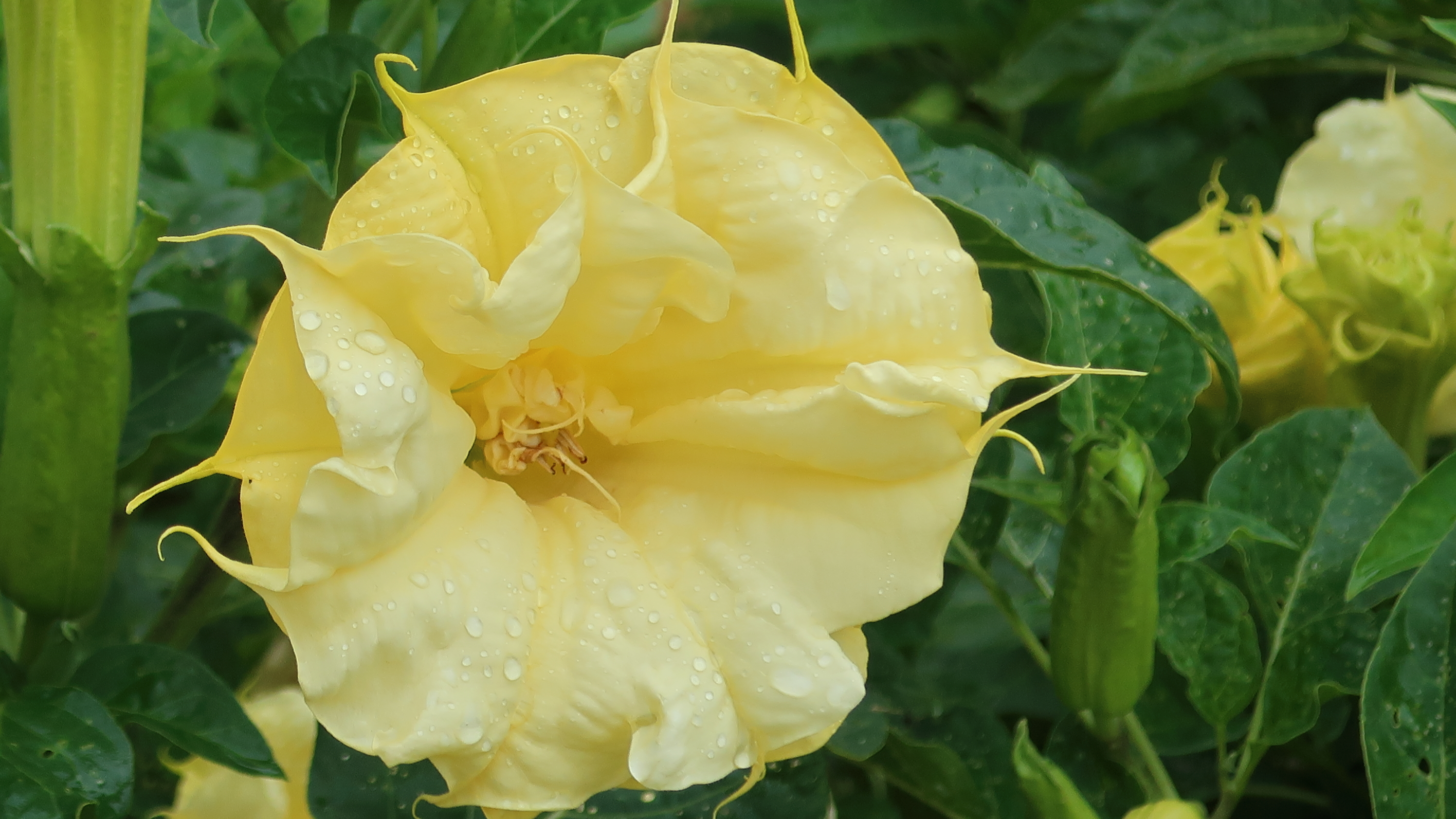 190908 054 Chicago Botanic Gdn - Crescent Garden, Datura metel 'Ballerina Yellow' Angel's Trumpet